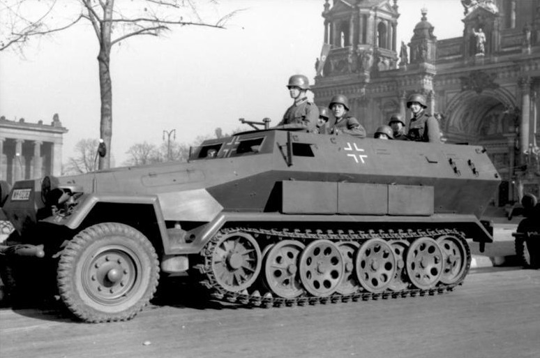 SdKfz.251/1 ausf.A APC